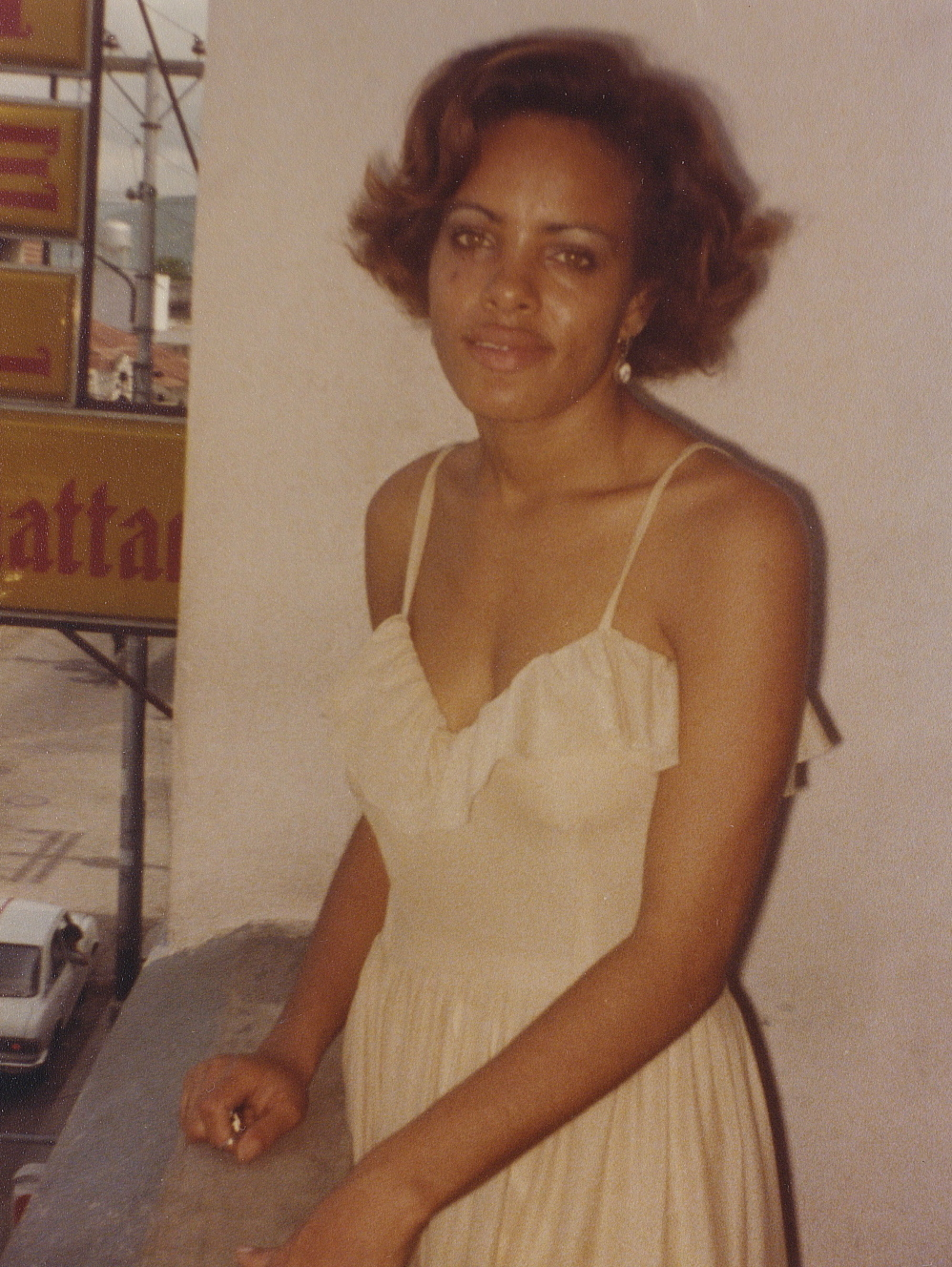 San Pedro Sula, Honduras, 1980. Young woman on balcony.